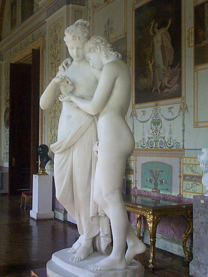 Title: Cupid and Psyche Location: Hermitage, St. Petersburg Notes: sculpture completed 1808. Not the famous cupid and psyche reclining statue Photographer: Mak Thorpe, taken 1999.